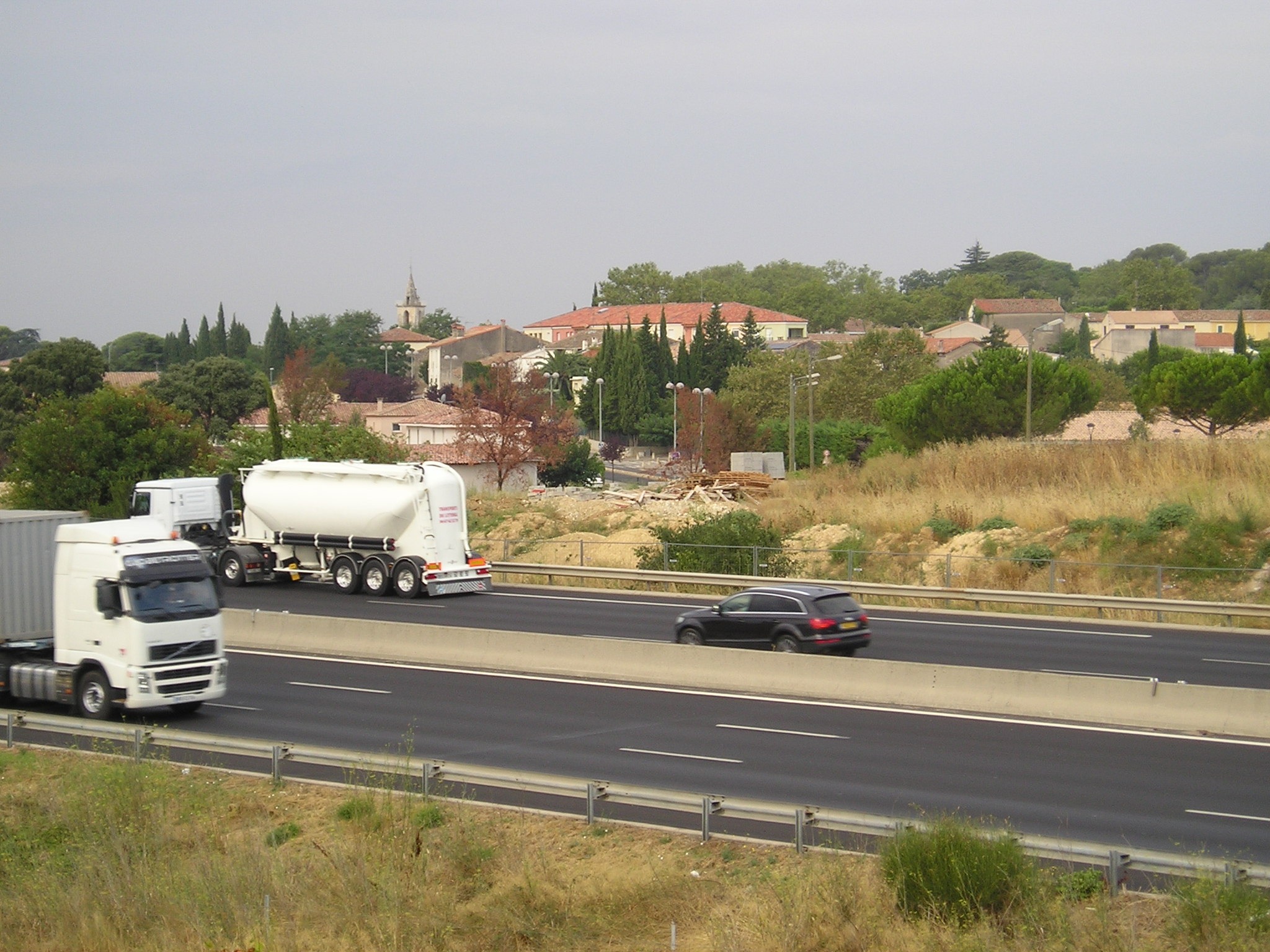 In Hérault, France, the old center of Saint-Aunès and the A9 autoroute viewed from the East.